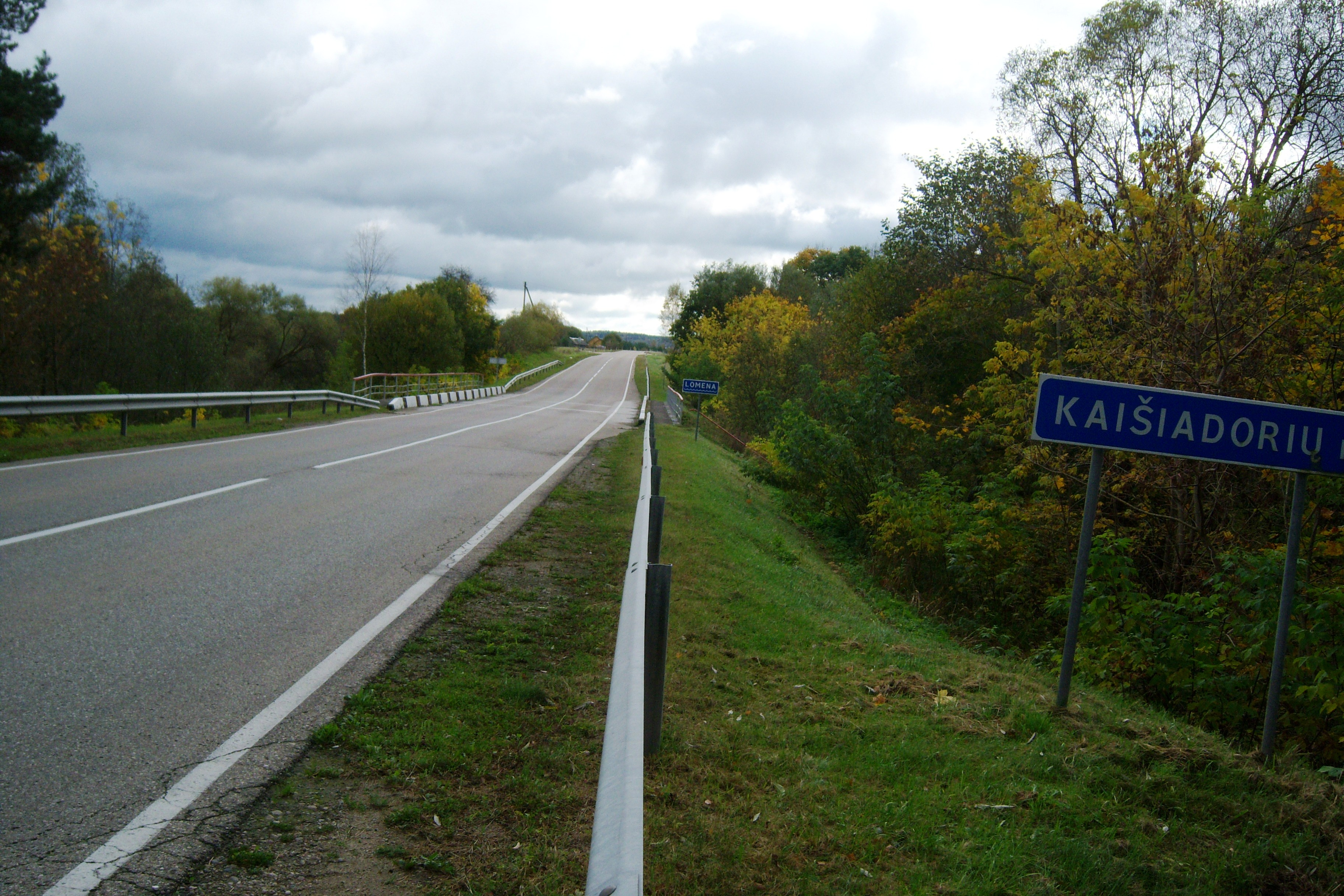 Road No.143 Jonava-Elektrėnai, Lithuania